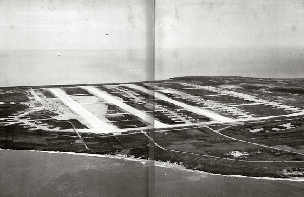 Photo of North Field, Tinian Island, 1945